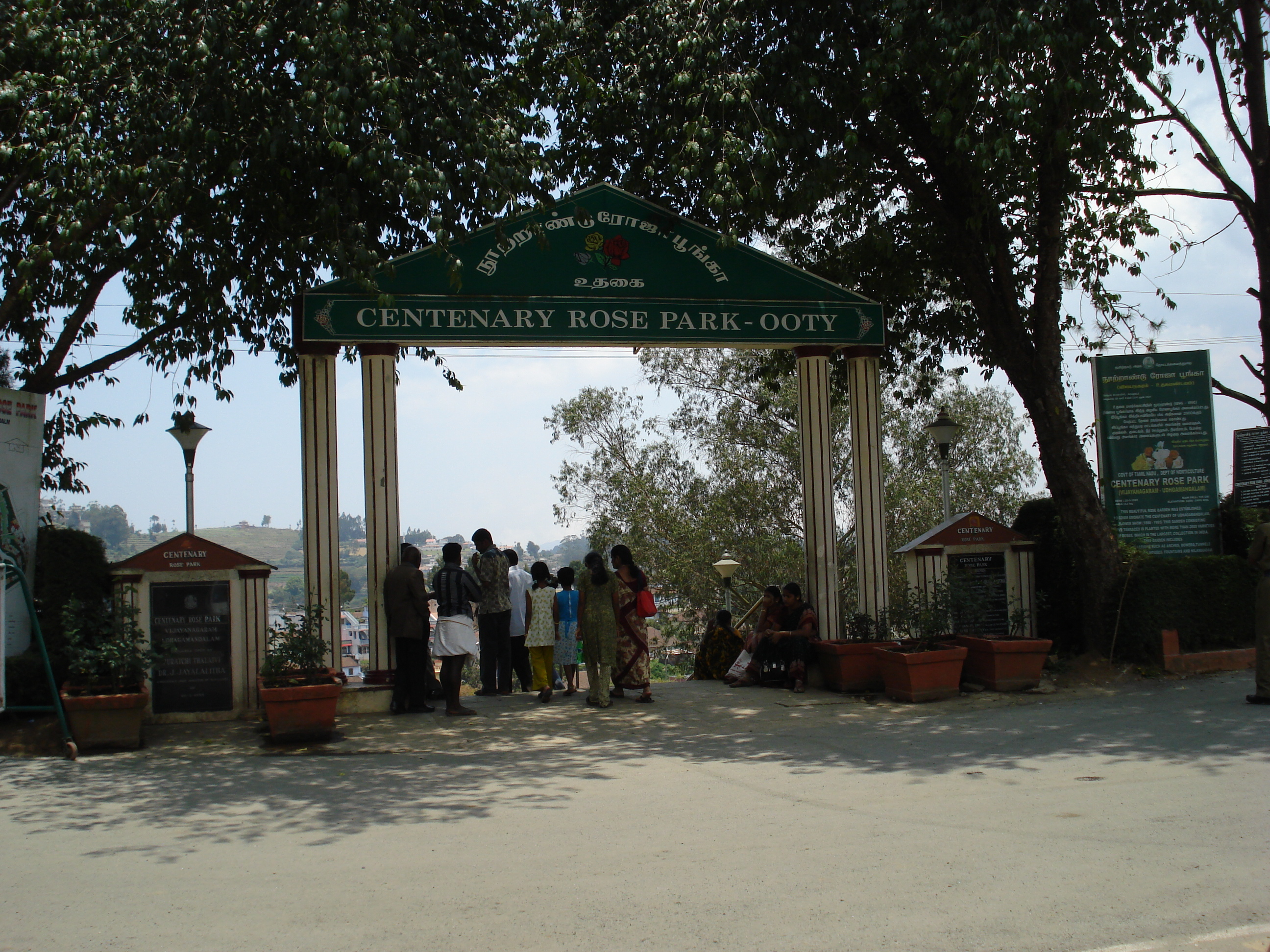 Entrance of Ooty Rose Garden